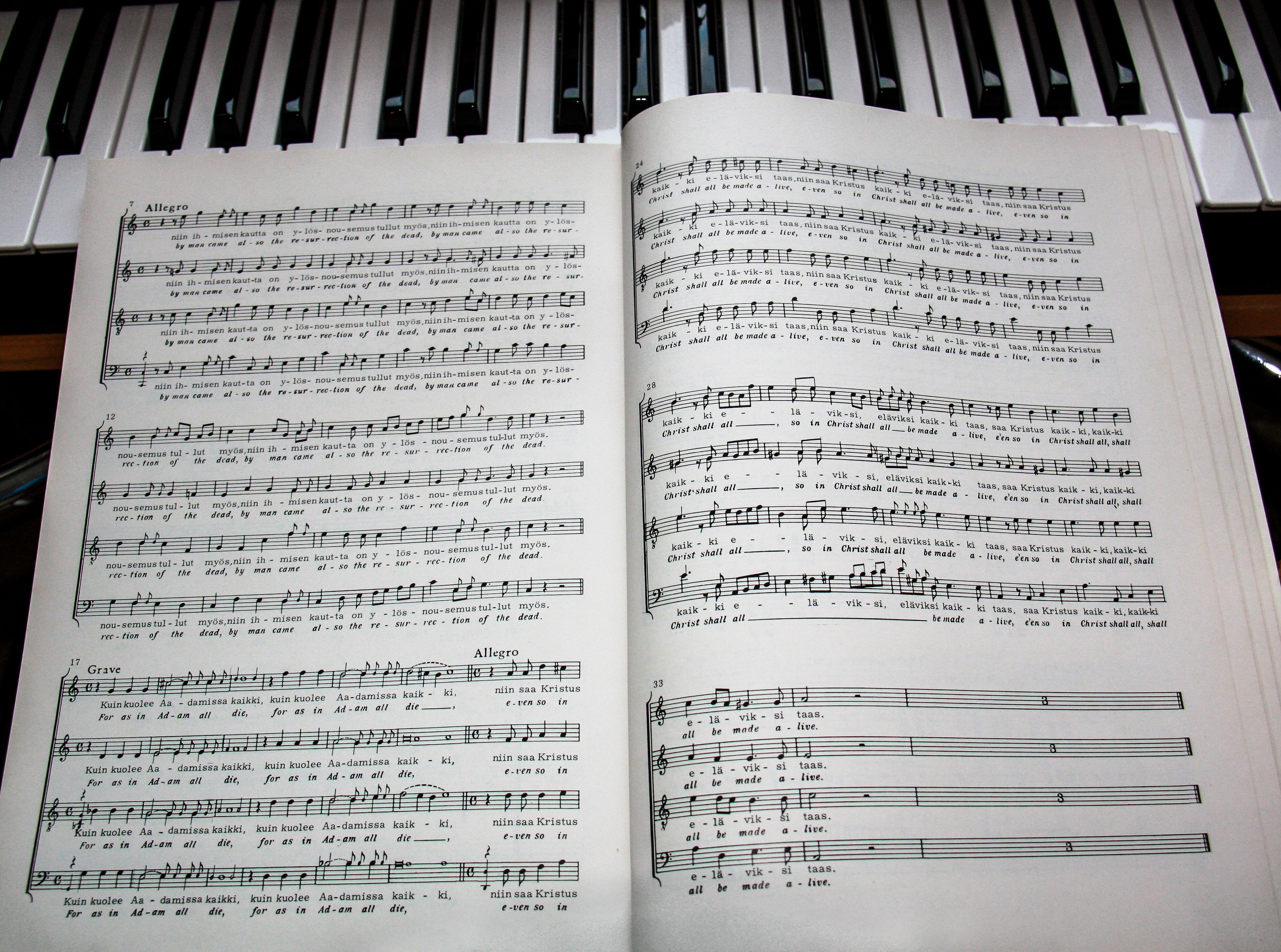 Pages of choir sheet music of GF Handel’s oratorio Messiah. Texts: English (original) and Finnish (translation). Notice the halved note values in many bars! Finnish words are long and have much more syllables than most of other European languages.